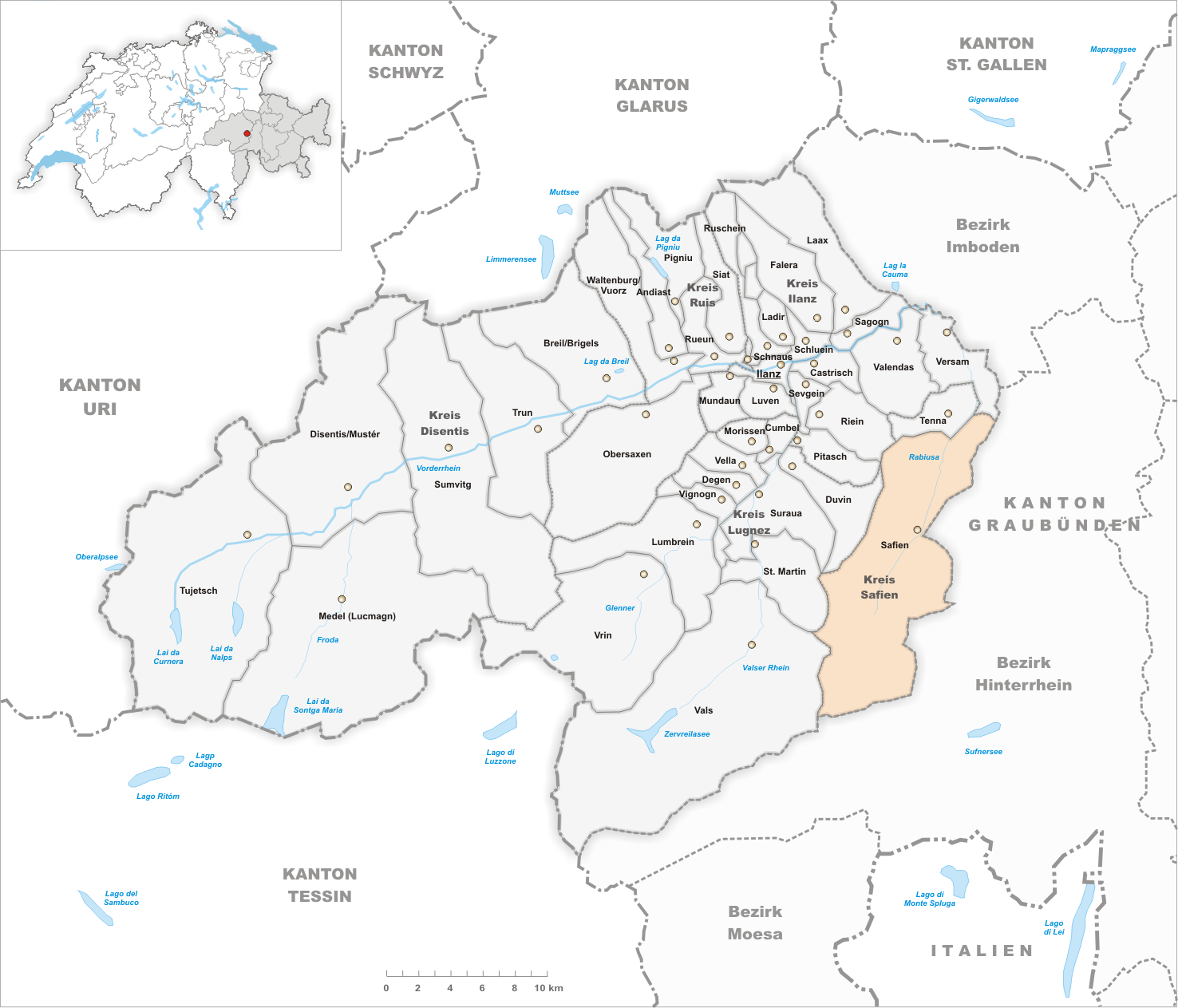 Municipality Safien